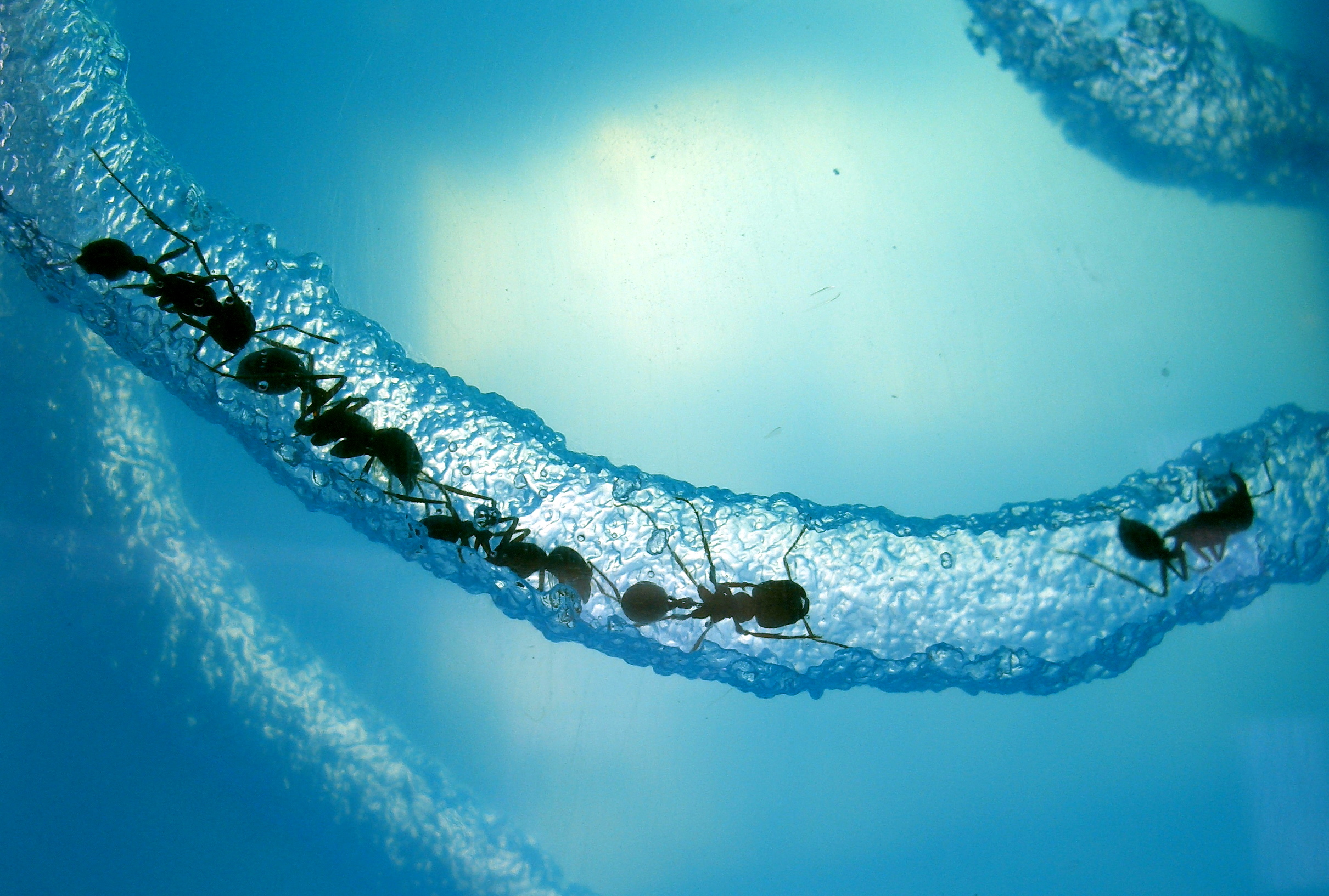 These are harvester ants with powerful jaws. In a strange coincidence, a harvester ant colony has a comparable number of neurons as a human brain. There are about 1.6 million ants for every person on earth. The ants you see crawling around are all female. This gel farm was developed by NASA to survive Space Shuttle launches (sand would shift and crush the ants under many G’s). They wanted to study tunnel formation in microgravity. The gel does not collapse during launch, and it contains all the food and water the ants need. It also has some antibiotics and anti-fungal agents.